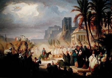 Christ's entry into Jerusalem